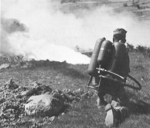 "A Marine from 3d Battalion 3d Marines uses a flamethrower to clear obstacles near Hill 55. This small hill was the dominant terrain feature in the 9th Marines area of operations and was later to be the site of the command post for the regiment."